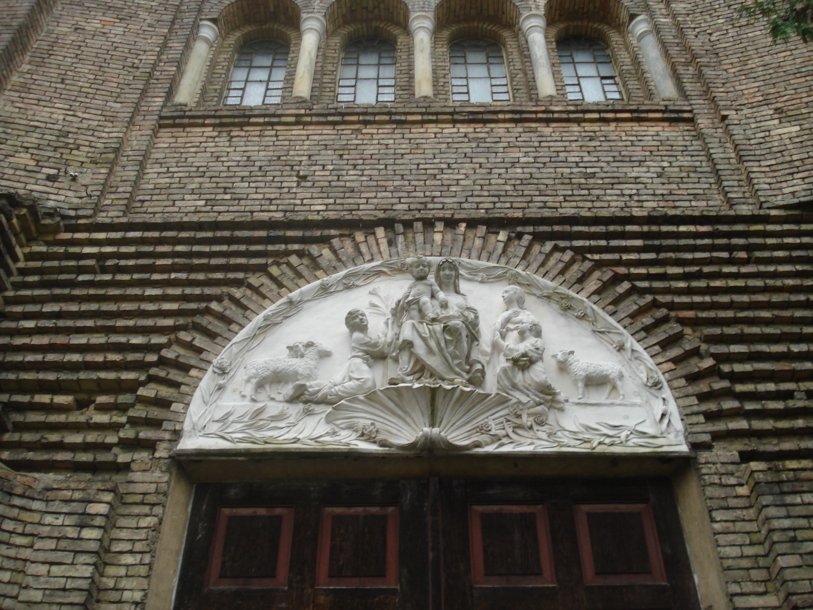 Church of the Immaculate Conception of Blessed Virgin Mary in Vilnius. Detail of the portal